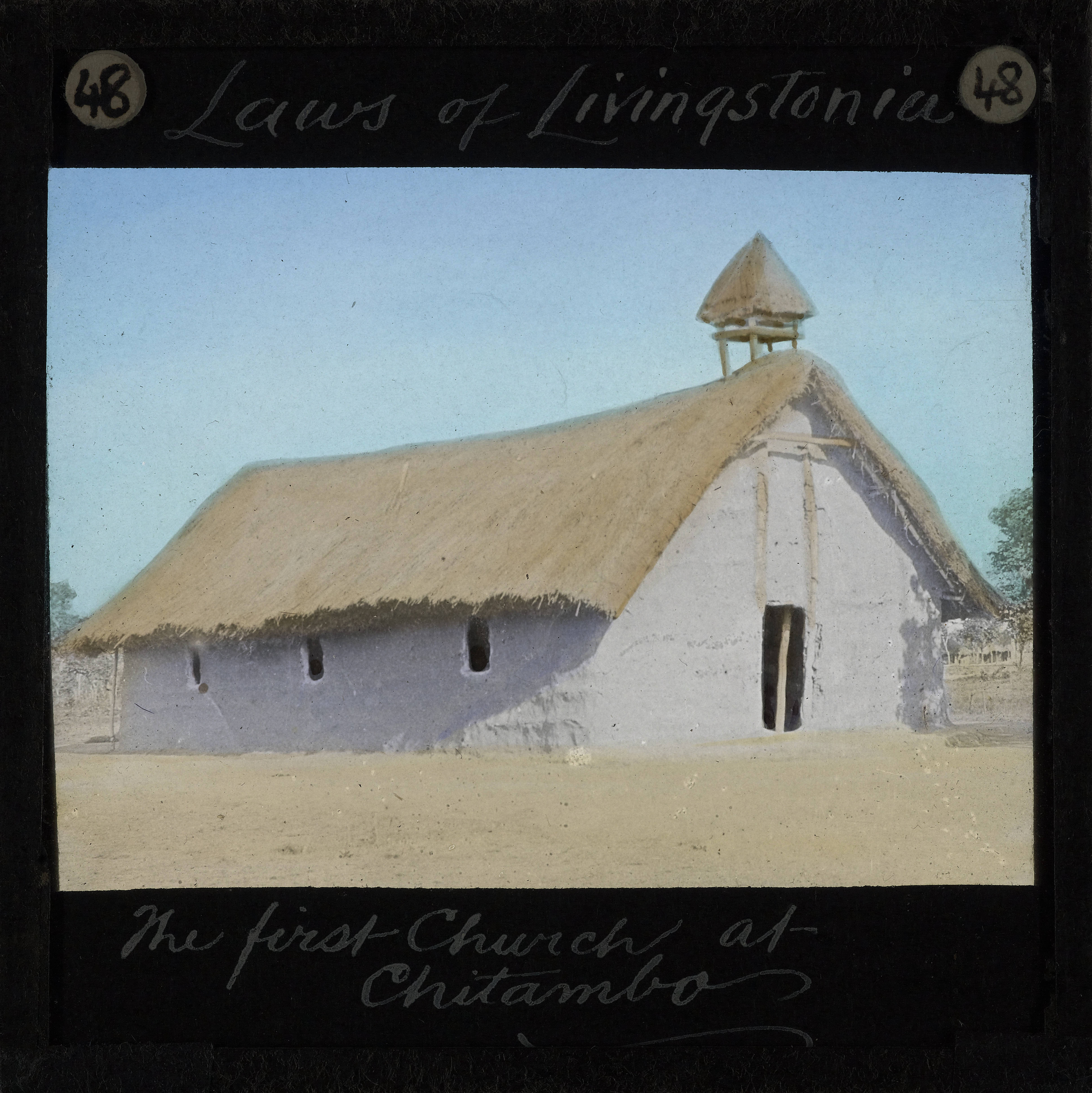 The First Church at Chitambo, Zambia, ca. 1895-ca.1910 Photograph of the exterior of the first church at Chitambo in Southern Zambia. The church has clay walls and a thatched roof and a small bell tower is located to the front of the building.; This belongs to a series of Church of Scotland Foreign Missions Committee lantern slides relating to Dr Robert Laws (1851-1934) the Scottish Missionary. In 1875, inspired by David Livingstone (1813-1873), Laws travelled to Malawi and was involved in the foundation of the mission station of Livingstonia on the shores of Lake Nyasa. During the succeeding 50 years he also established a network of hundreds of schools. In 1908 Laws was elected moderator of the General Assembly of the United Free Church of Scotland. Photographer: Unknown Subject (personal name): Laws, Robert, 1851-1934 Filename: imp-cswc-GB-237-CSWC47-LS5-1-048.tif Coverage date: 1895/1910 Part of collection: International Mission Photography Archive, ca.1860-ca.1960 Type: images Part of subcollection: Photographs from the Centre for the Study of World Christianity, University of Edinburgh, U.K., ca.1900-ca.1940s Repository name: Centre for the Study of World Christianity Archival file: impaunpub_Volume7/1552.url Repository address: The University of Edinburgh School of Divinity, New College, Mound Place, Edinburgh EH1 2LX, United Kingdom Geographic subject (country): Zambia Format (aacr2): 1 lantern slide : 8 x 8 cm. Geographic subject (continent): Africa Rights: Contact the repository for details. Part of series: Laws of the Pioneer LS5/1 Repository Subject (lcsh Keyword): Church buildings; thatched roofs Date created: 1895/1910 Publisher (of the digital version): University of Southern California. Libraries Subject (aat genre): exterior views Format (aat): lantern slides Legacy record ID: impa-m68635 Access conditions: File: GB 237 CSWC47/LS5/1/48